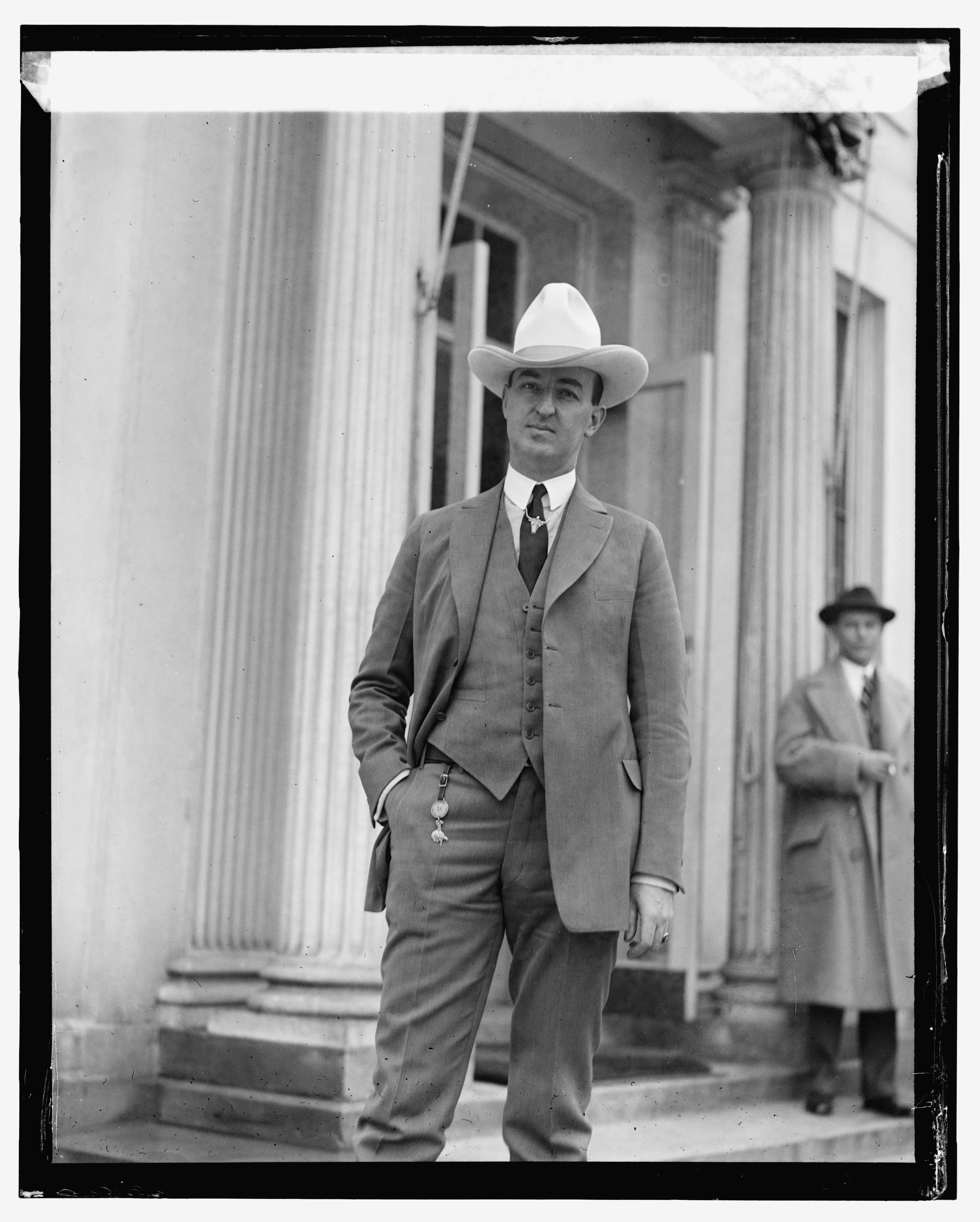 Title: Tex Austin & Edw. T. Clark, 4/3/24 Abstract/medium: National Photo Company Collection (Library of Congress) Physical description: 1 negative